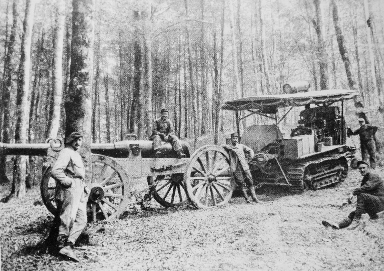 Holt artillery tractor towing a French field gun, Vosges, spring 1915. The gun appears to be a 155-mm long modèle 1877.